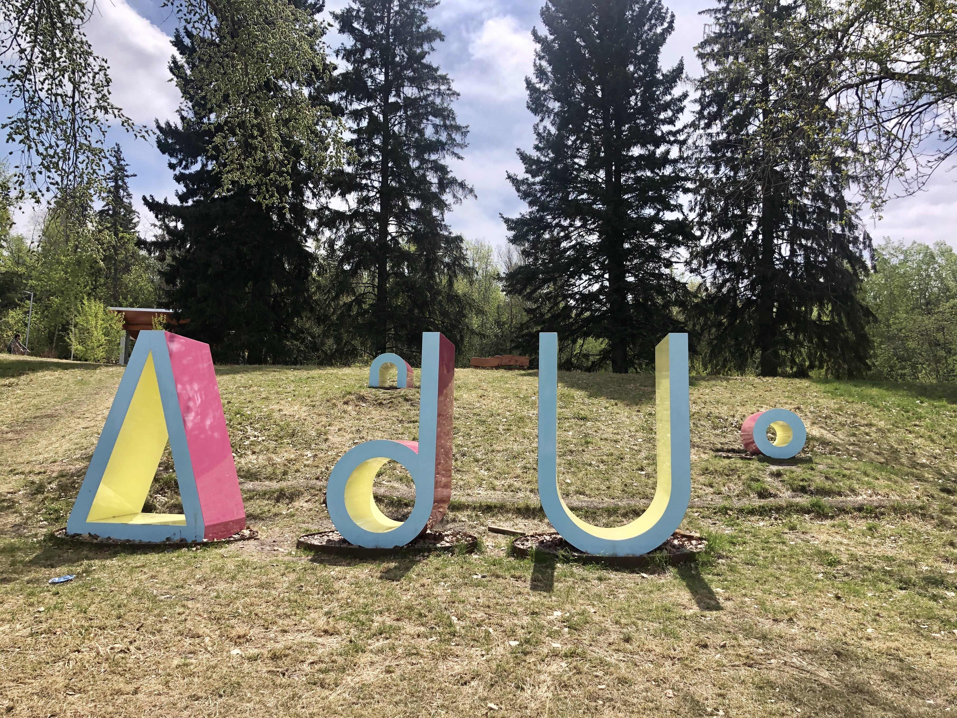 ᐃᐢᑯᑌᐤ (iskotew) by Amy Malbeuf in the Indigenous Art Park, ᐄᓃᐤ (ÎNÎW) River Lot 11. Edmonton, Alberta.